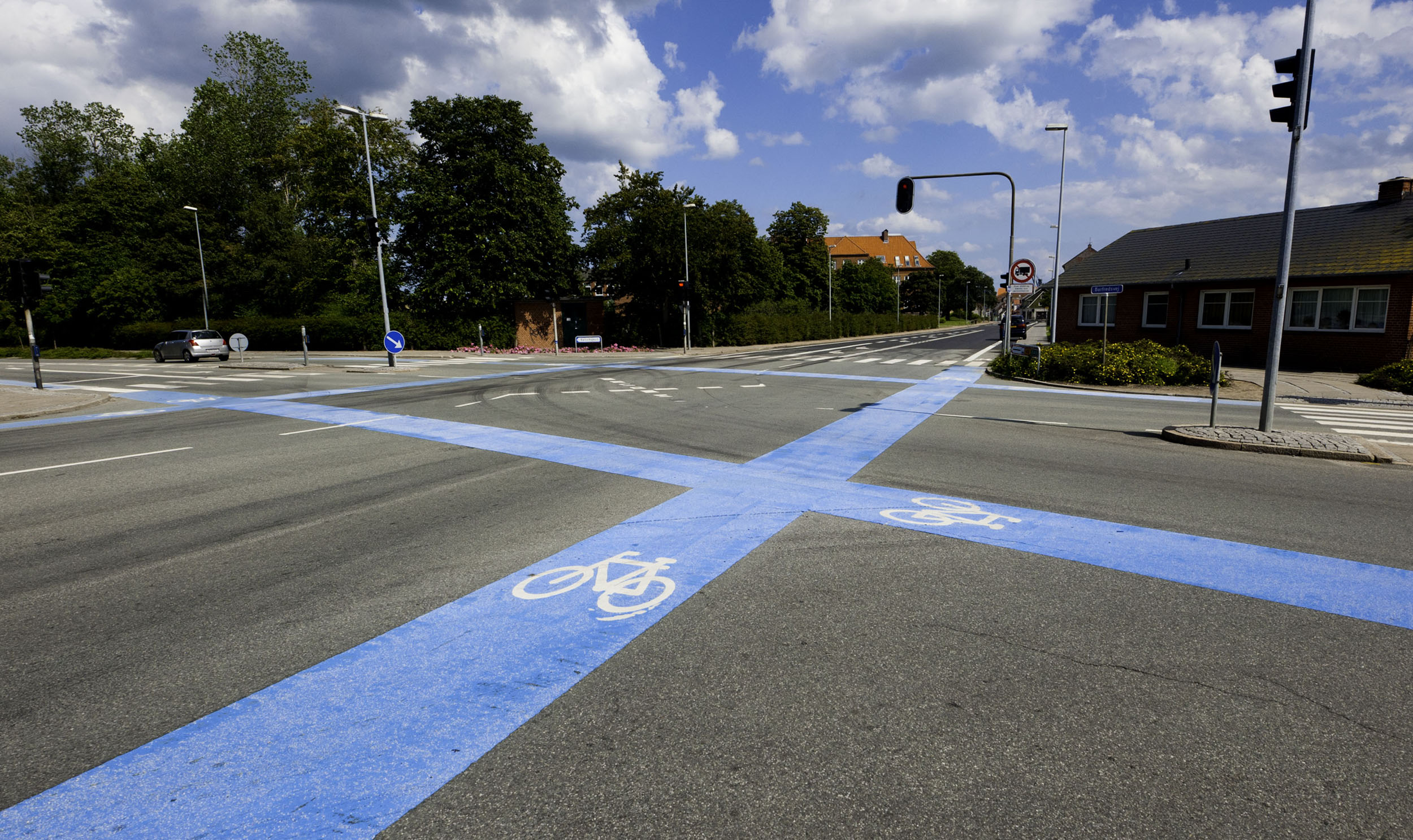 Bicycle lanes is marked with a clear blue colour in many intersections in Denmark. It is forbidden for both cars and bicycle to stop in these lanes.